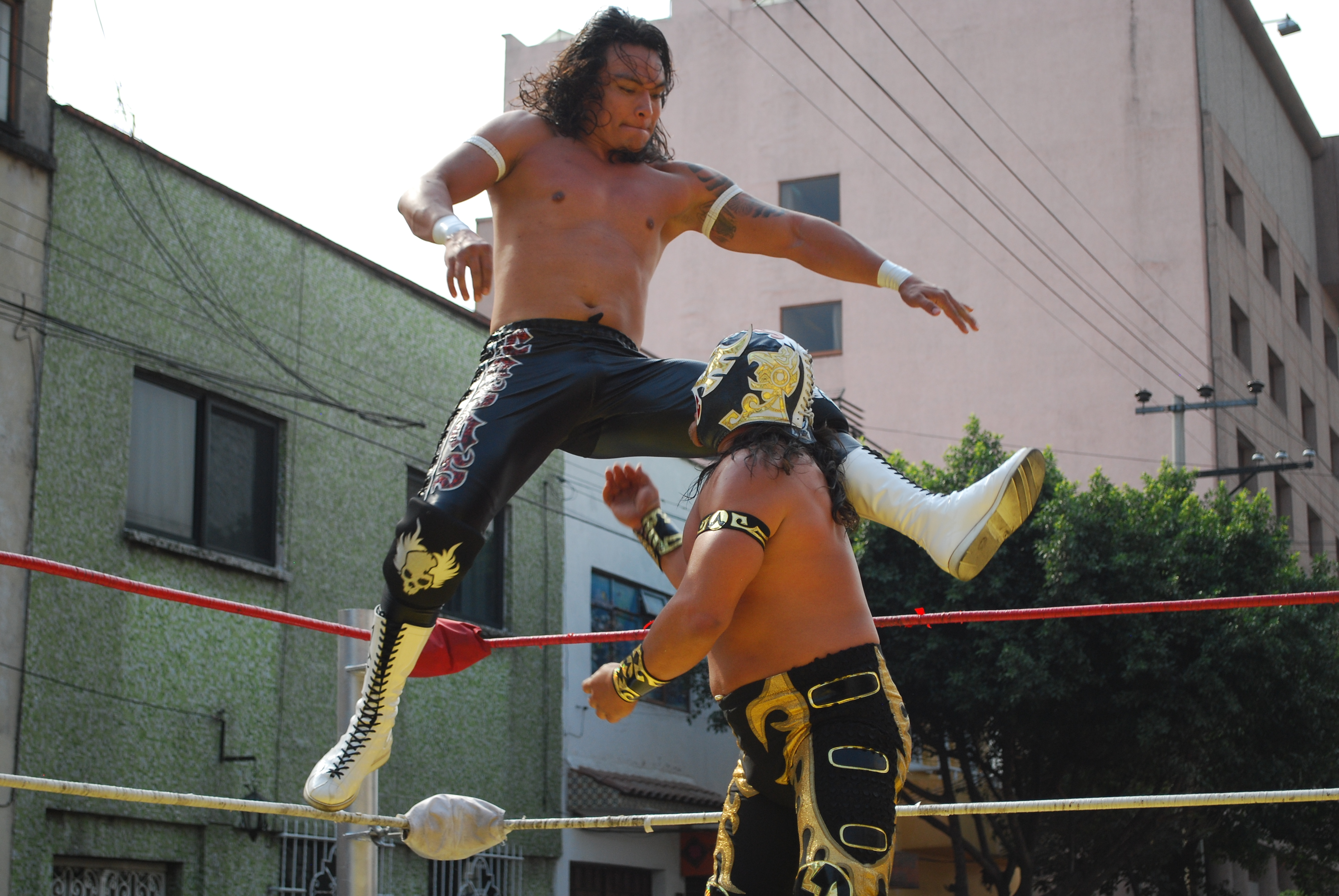 Canelo Casas and Ultimo Guerrero at the last match at a CMLL lucha libre event part of Festival Día de Reyes Territorial Obrera Doctores in Mexico City